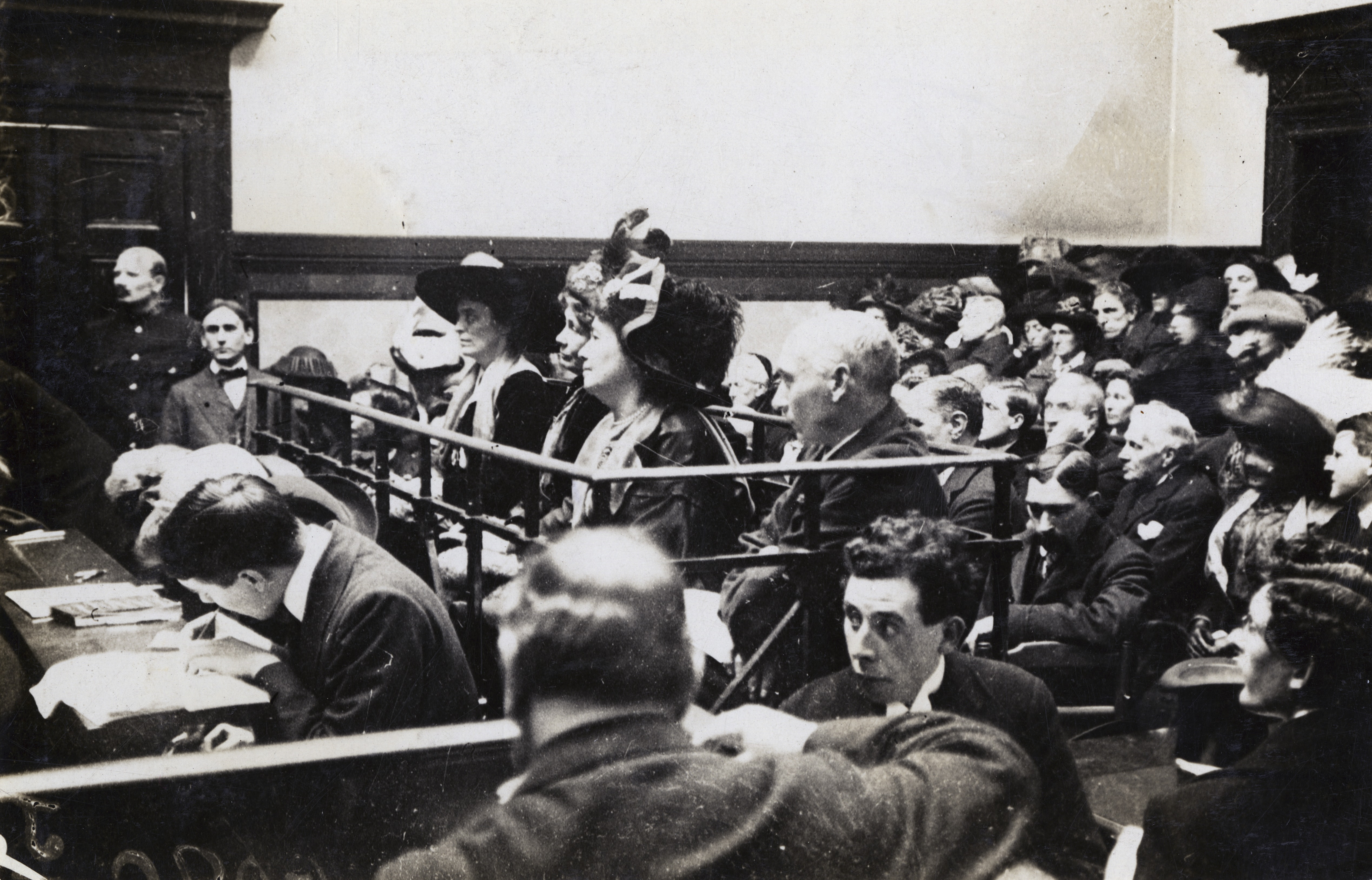 7JCC/O/02/062 Photograph, printed, paper, monochrome, Frederick Pethick Lawrence, Emmeline Pethick Lawrence,, Emmeline Pankhurst and Mabel Tuke in the dock at Bow Street; printed inscription on reverse 'This photograph is the copyright of the Illustrations Bureau, 12 Whitefriars St, London EC, and must not be reproduced without permission'